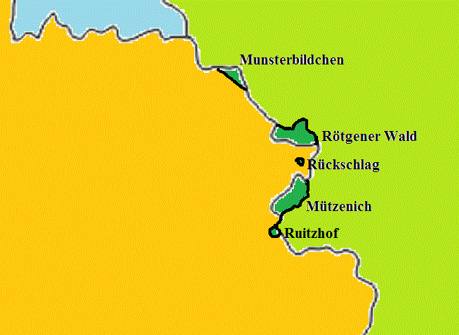 Vennbahn enclaves between Belgium and Germany